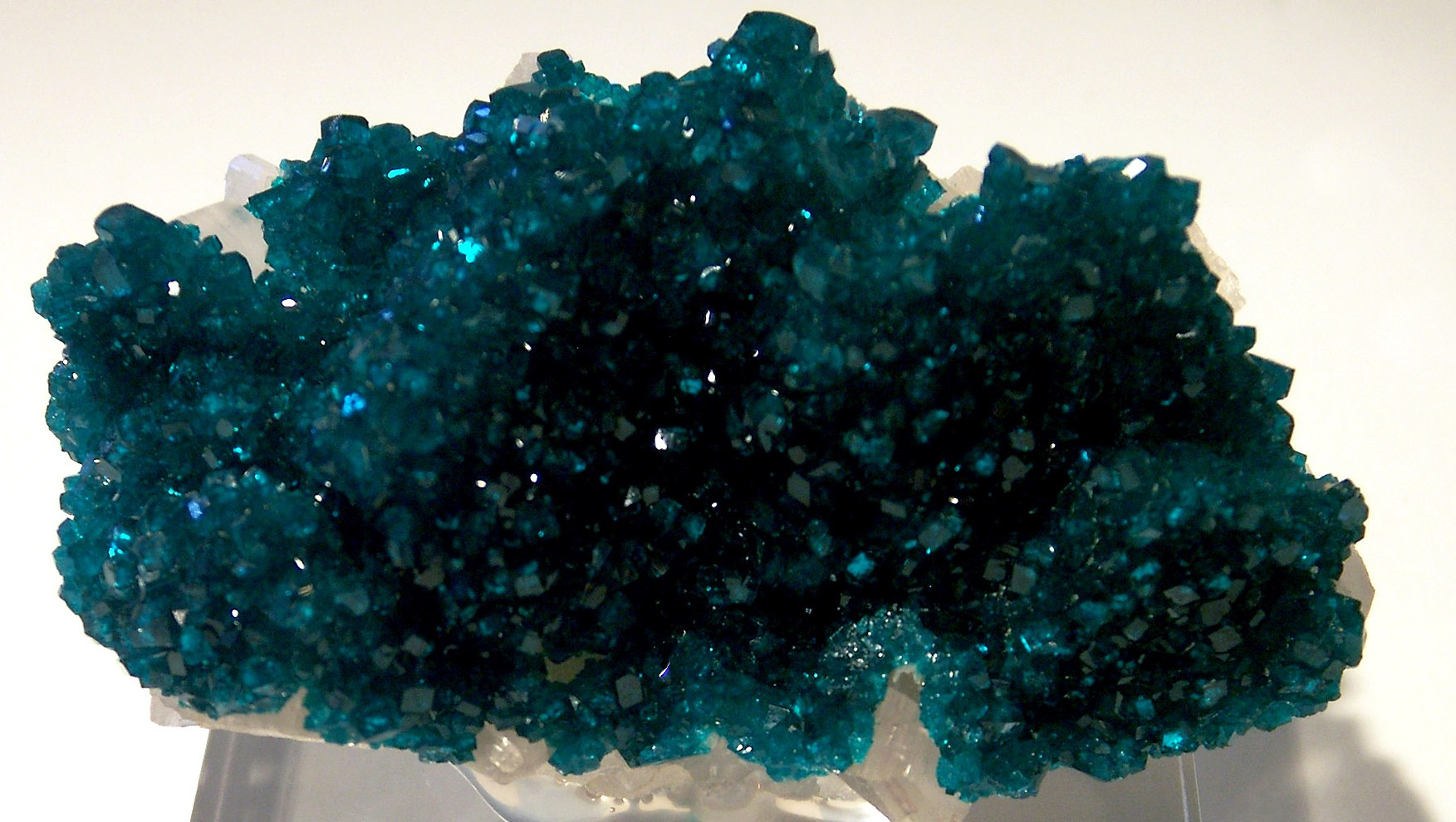 Dioptase Specimen, Museum Quality, Tsumeb It's unusual to see dioptase so gemmy, such a large mass on matrix and such unusual deep color. This is one of my favorite minerals and to see this specimen up close was a thrill. This is about 4" long and worth hundreds of dollars. Best view is large, of course.